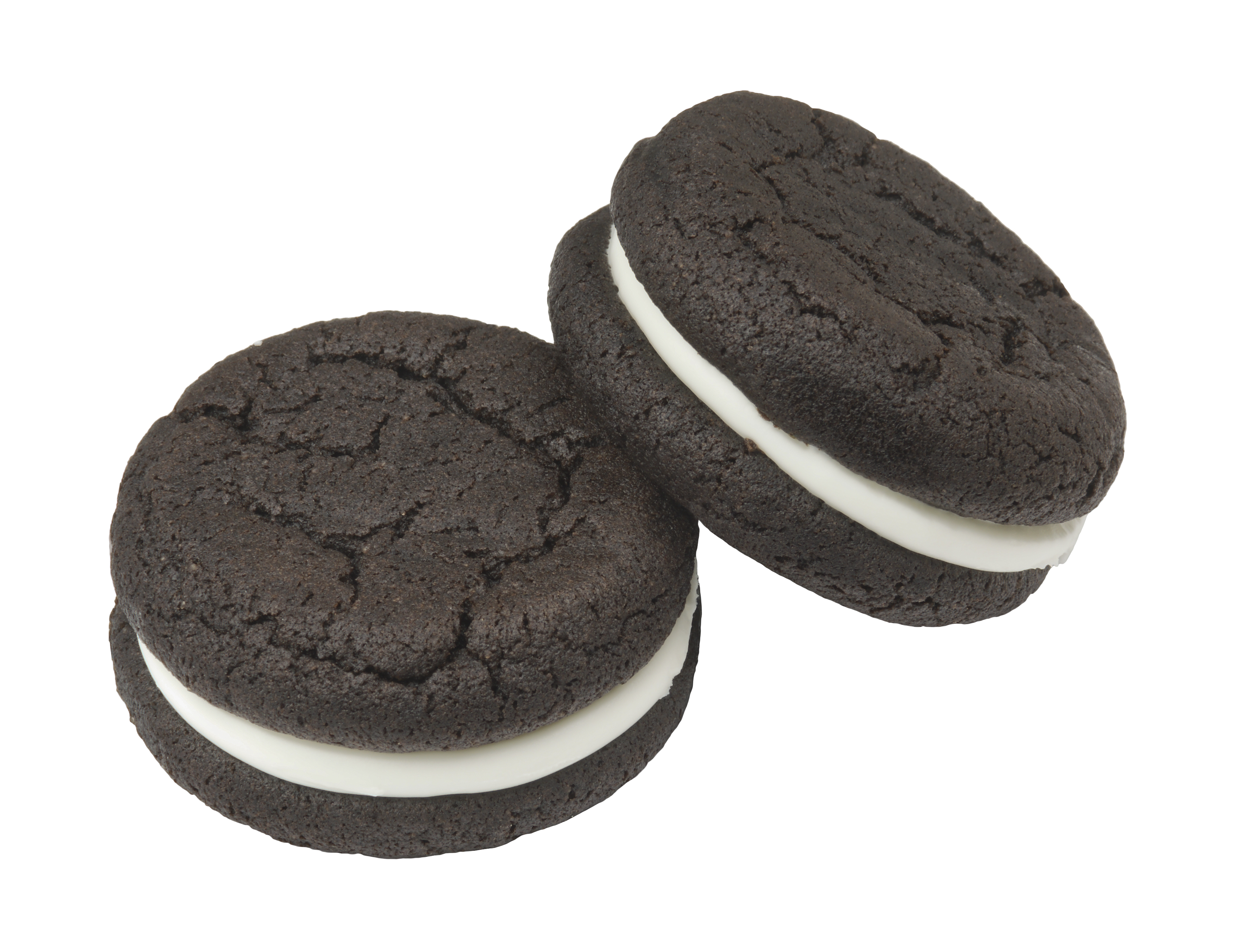 Oreo Cakesters cookies, made by Nabisco.